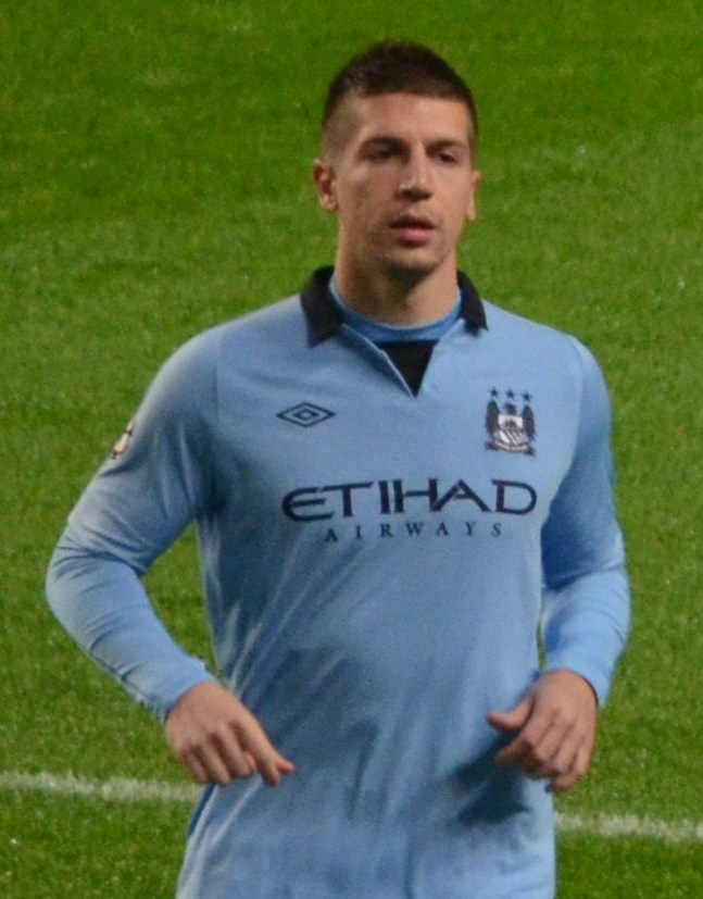 Matija Nastasić, player of Manchester City FC.